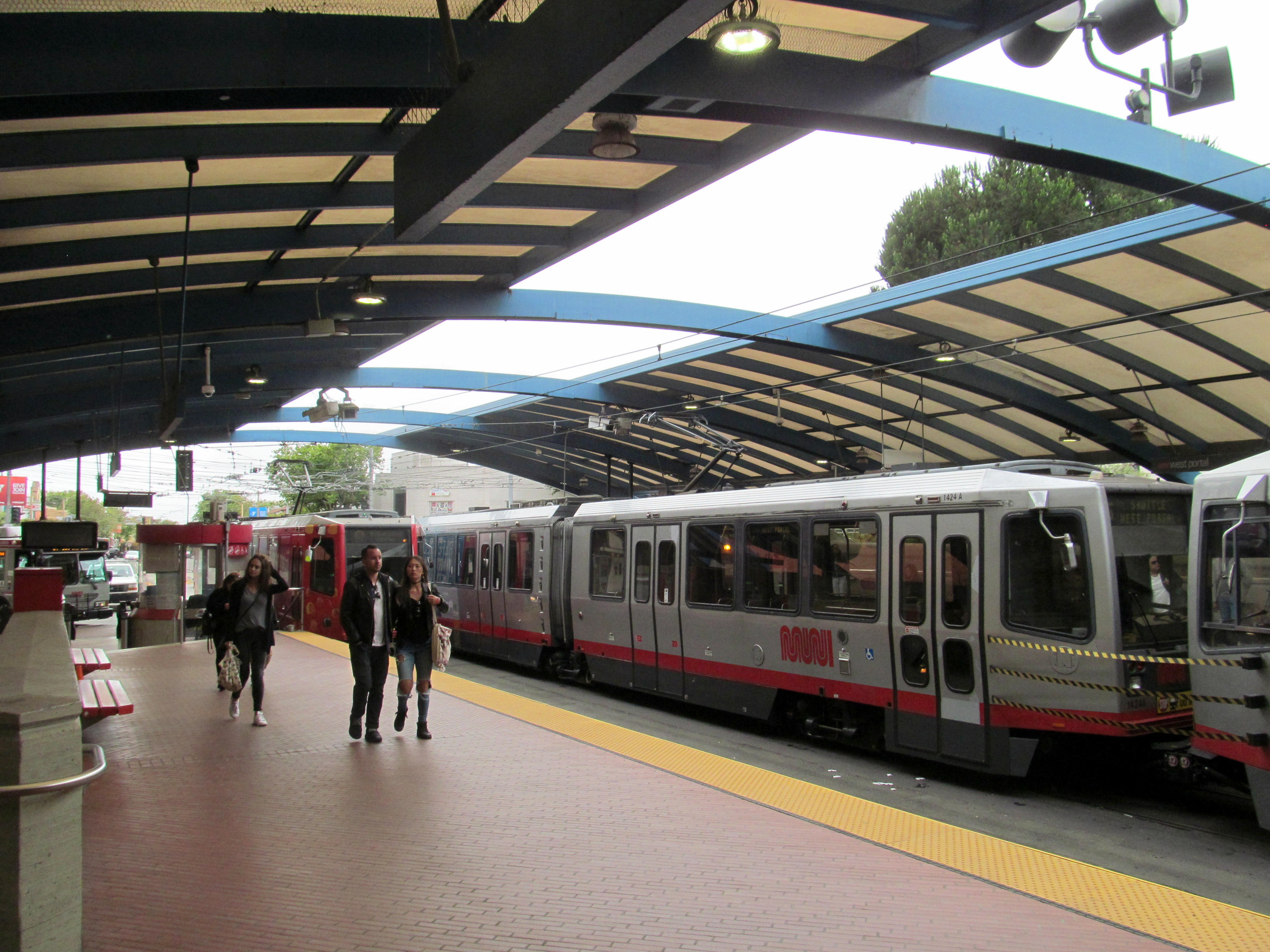 Two trains at West Portal station in June 2017